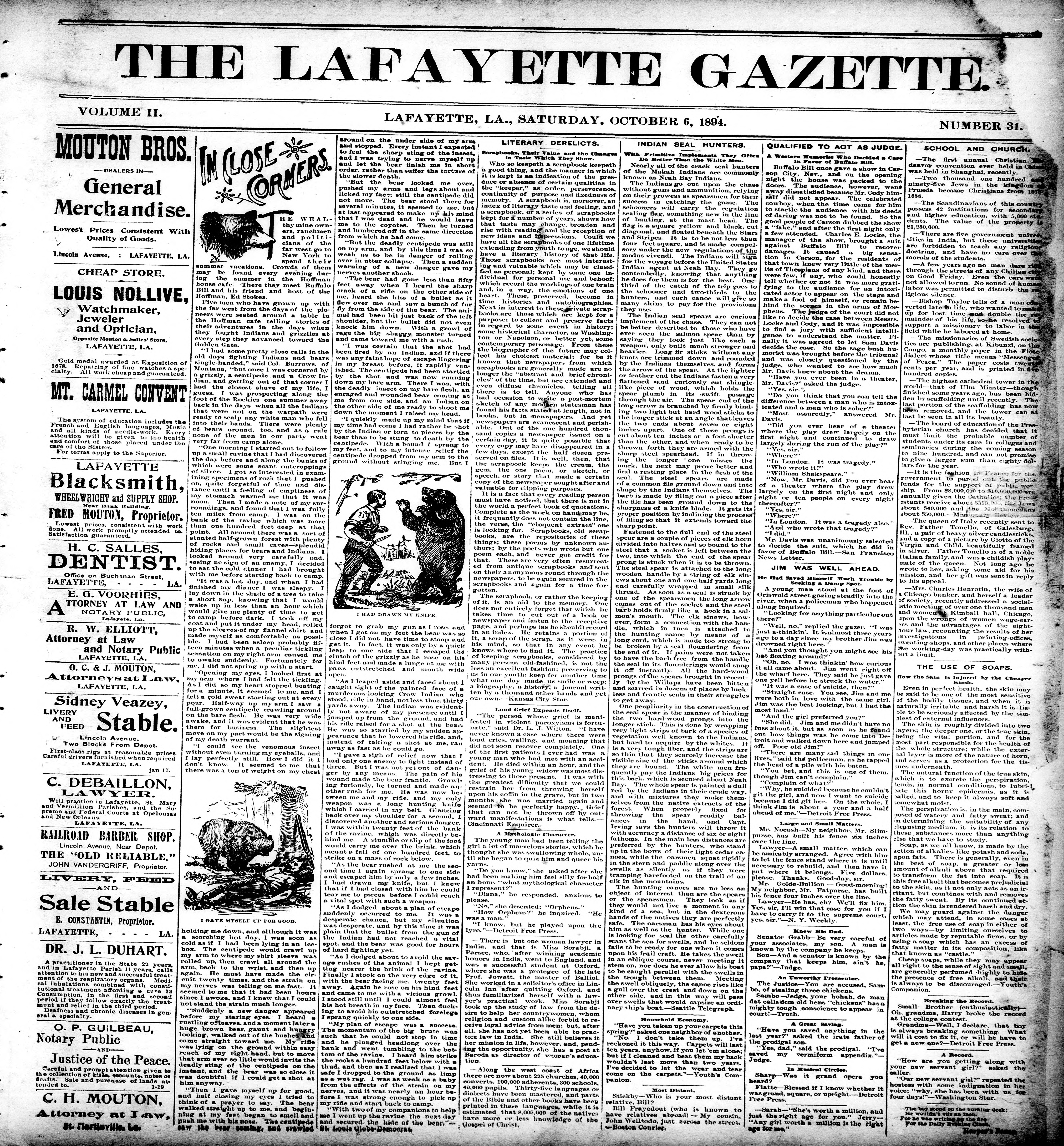 The Lafayette Gazette newspaper of Lafayette Louisiana, October 06, 1894, page one.